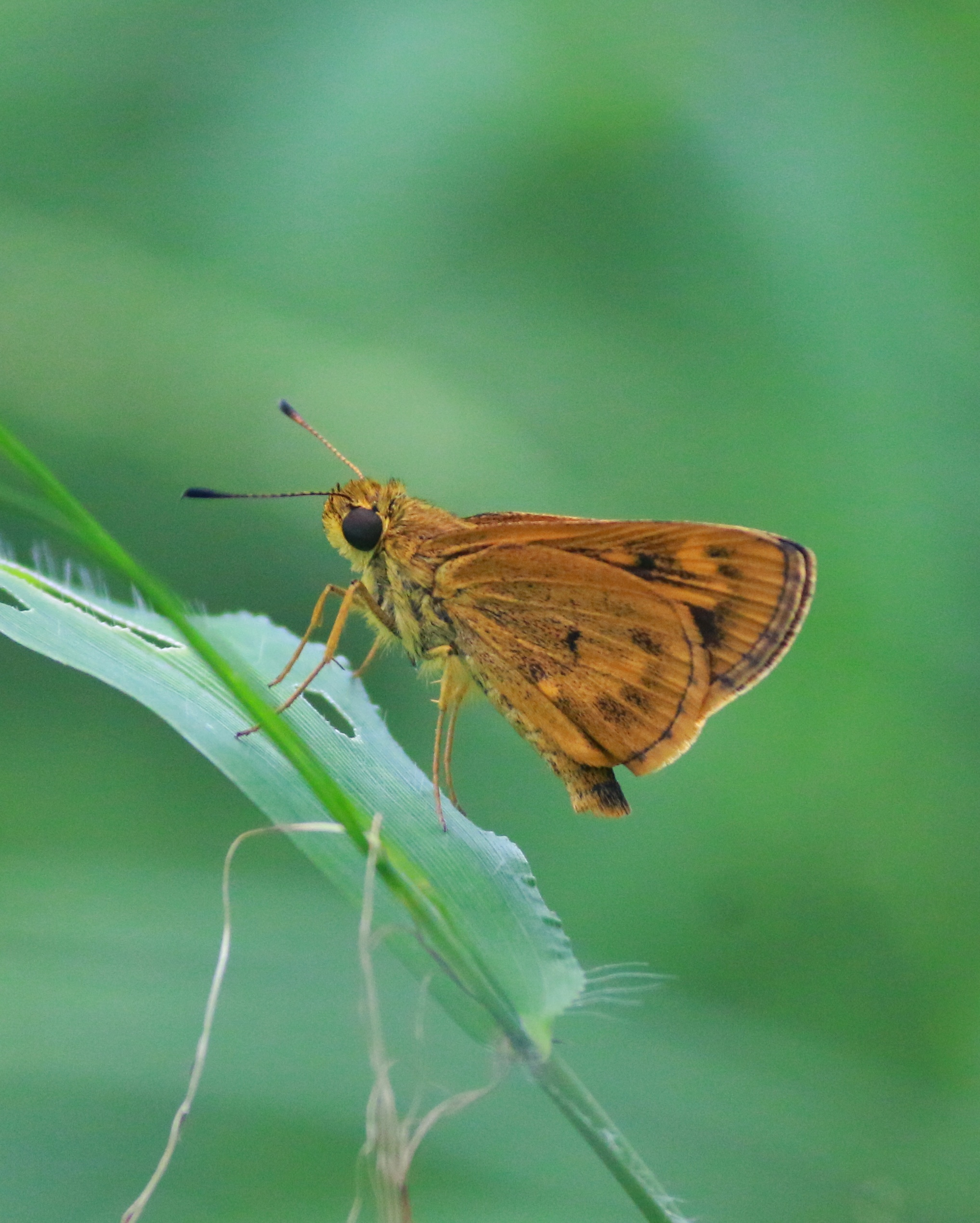 Common Bush Hopper